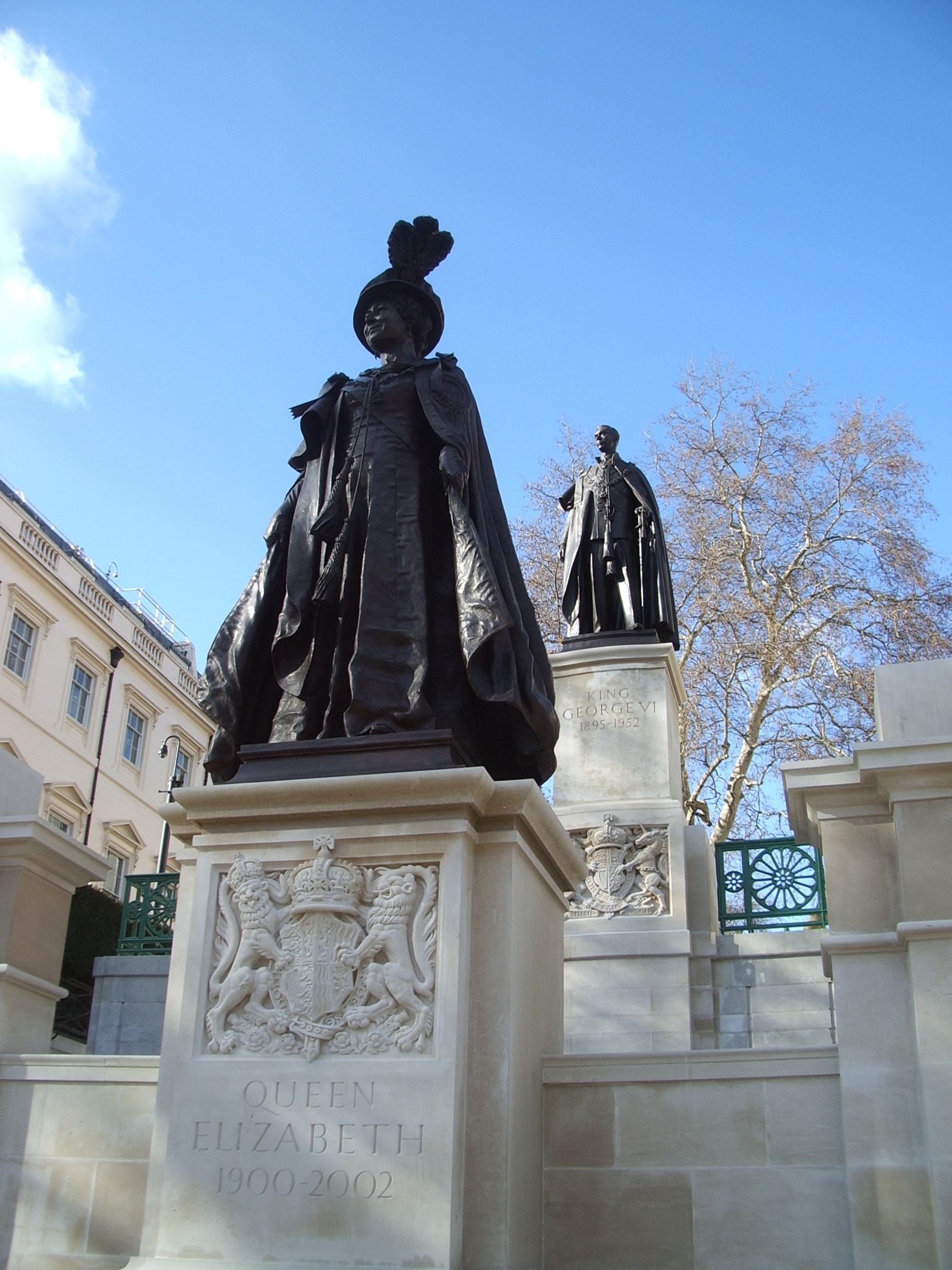 Philip Jackson's sculpture of the Queen Mother places her at the same age as her husband when he died in 1952. The same is true of Queen Mary and George V at Windsor.